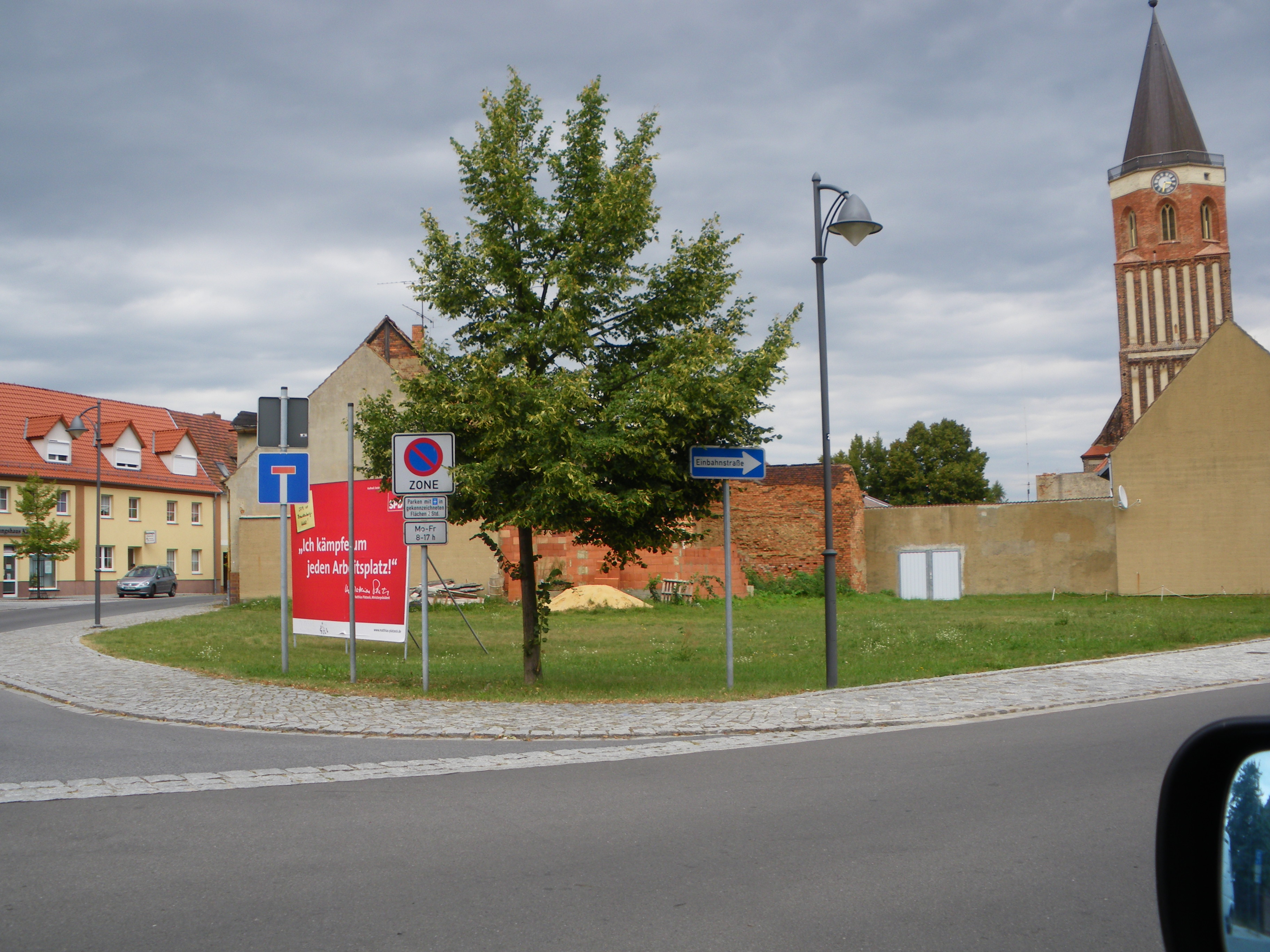 Kirchstrasse 1 in Calau, Brandenburg, Germany